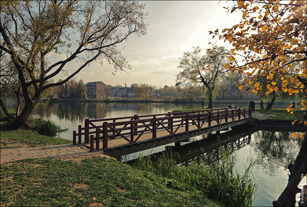 Views of Minsk